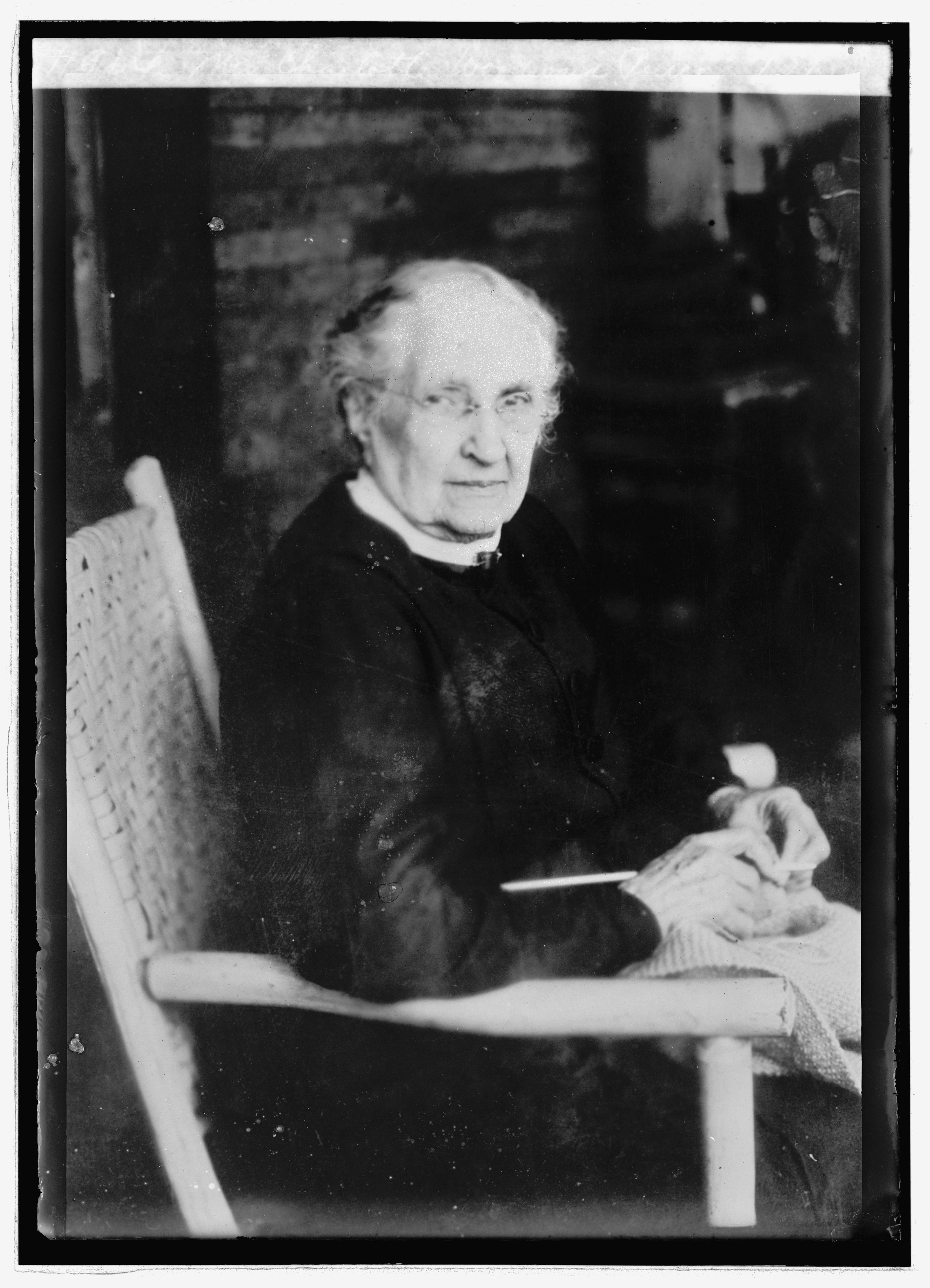 Title: Mrs. Charlotte Woodward Pierce, 2/10/21 Abstract/medium: 1 negative : glass ; 5 x 7 in. or smaller